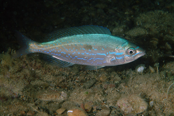 Spicara flexuosa photographed in Tuscany (Italy). Photo by Stefano Guerrieri.